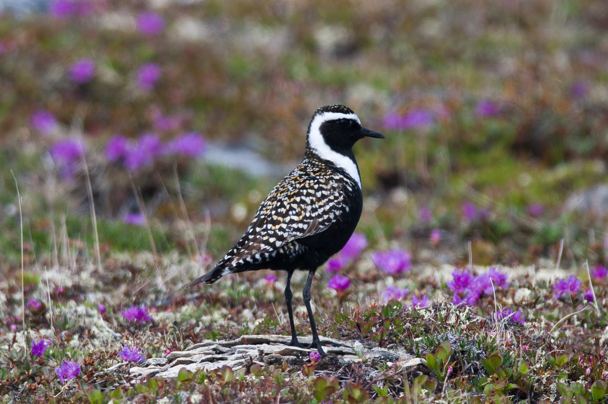 Churchill, Manitoba